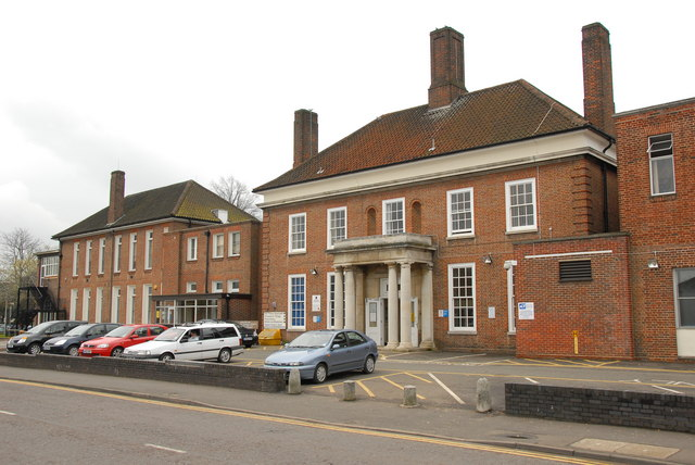 Memorial Hospital, Midland Road, Peterborough Currently part of Peterborough District Hospital. Opened in 1928 as a memorial to the dead of the First World War. The children's ward to the south (left) included an open ground and first floor sun parlour. Classical portico entrance. Listed in the Peterborough Local Plan, Appendix VI as a building of local importance.